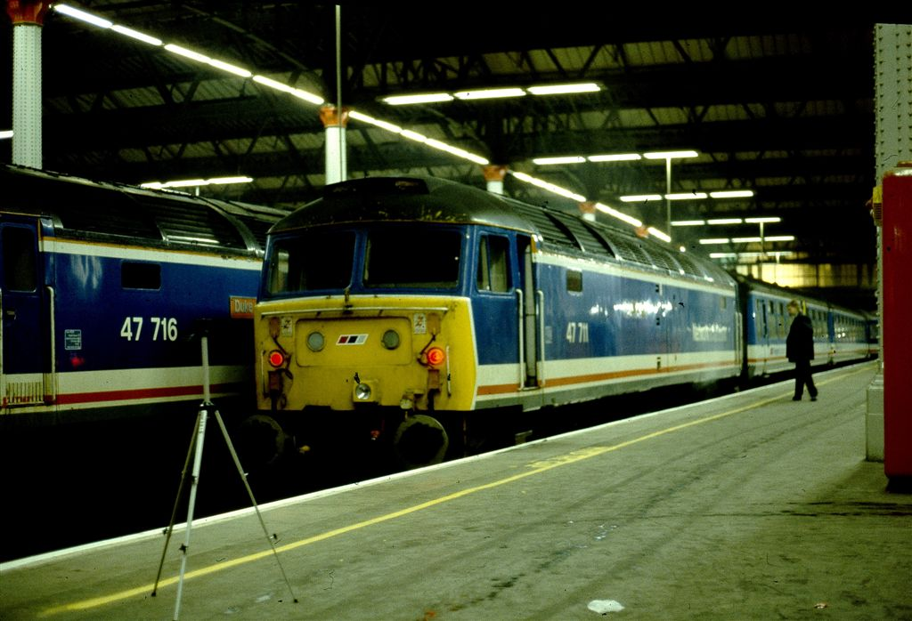 Network South East Class 47 locos 47711 and 47716 at London Waterloo station